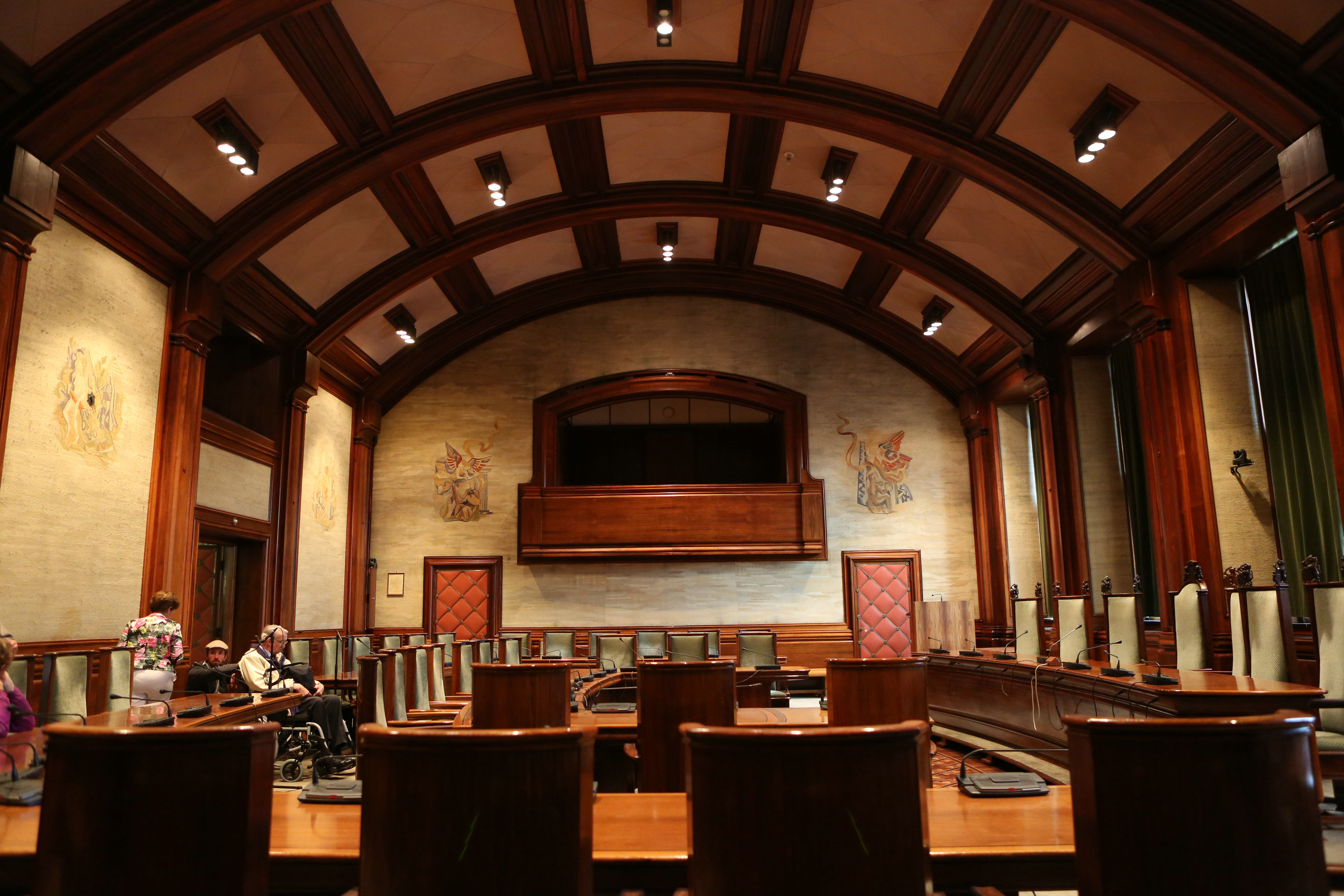 City council in the town hall of Leiden, the Netherlands